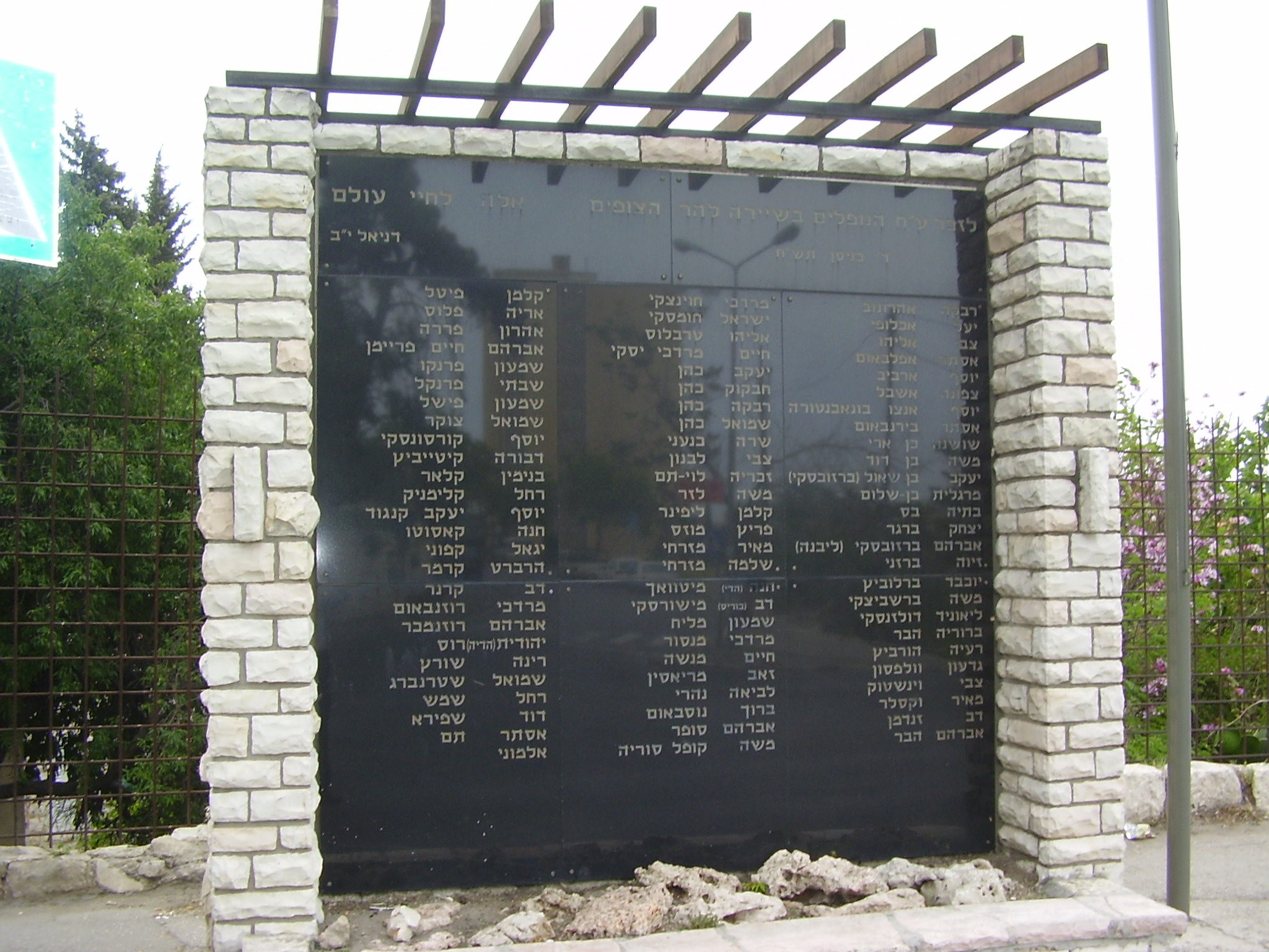 North Jerusalem, Sheikh Jarrah neighborhood (alShaykh Jarah). Memorial in Sheikh Jarrah for the victims of the Hadassah medical convoy massacre.